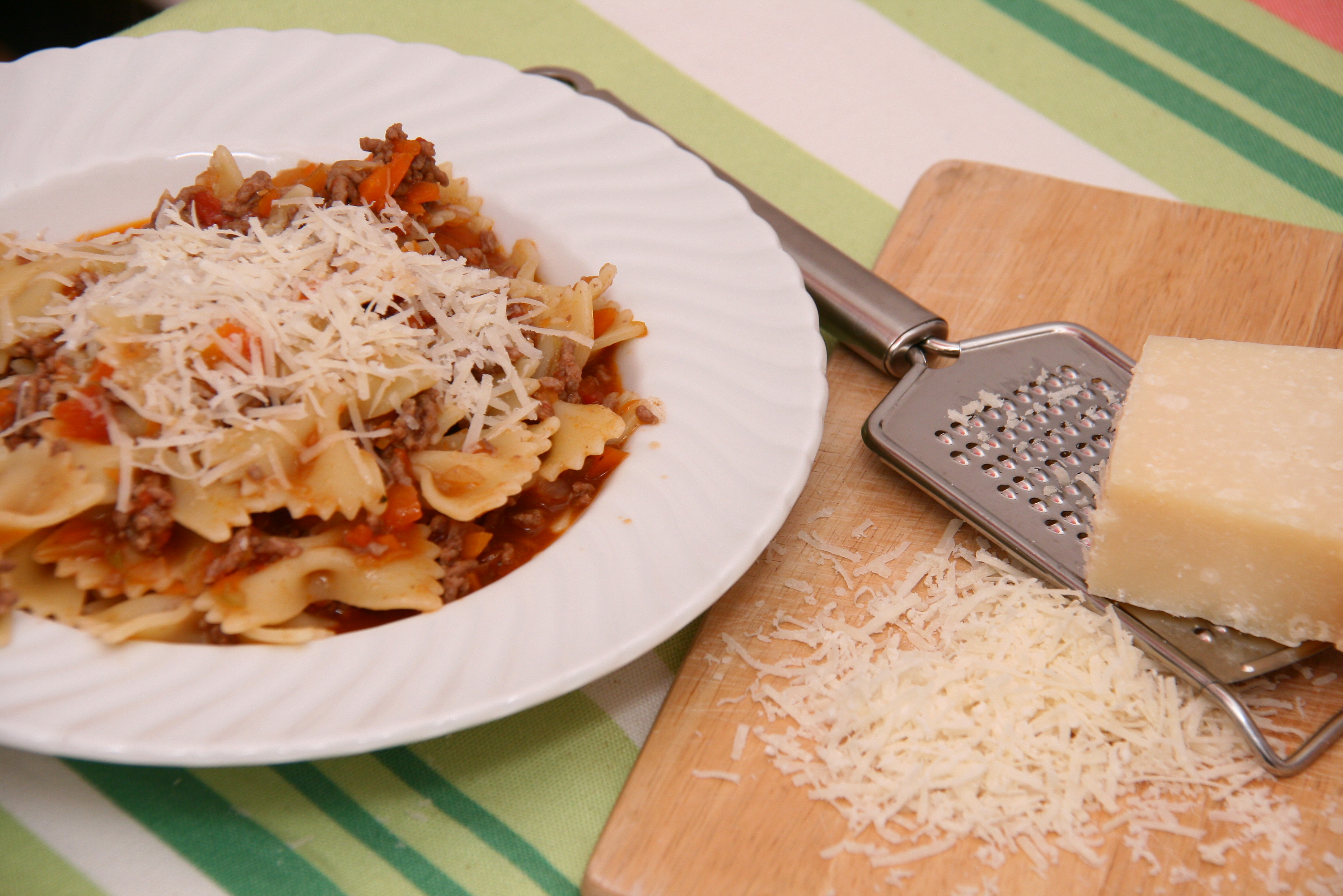 Pasta bolognese with grated cheese.